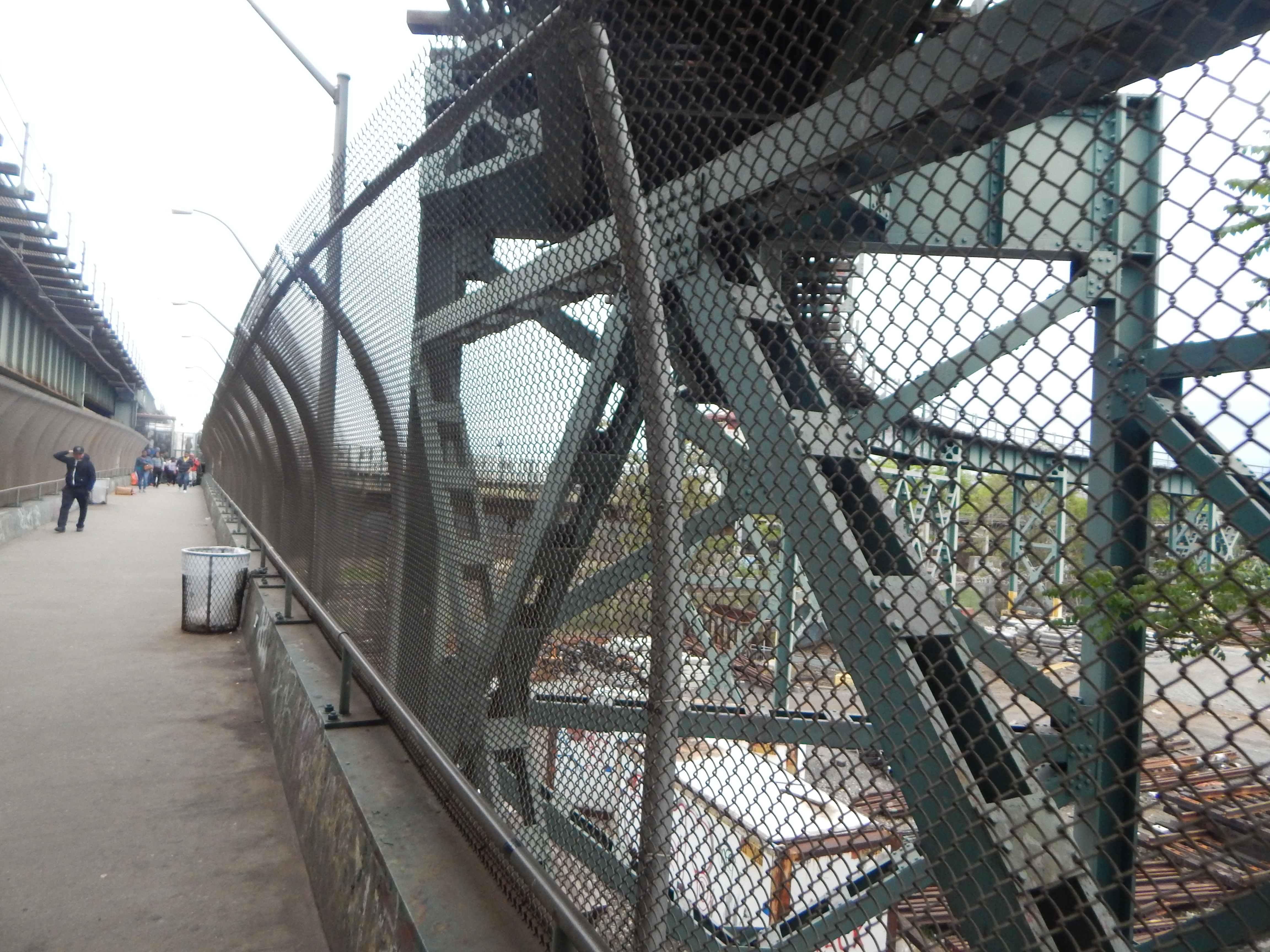 East New York, Brooklyn, New York